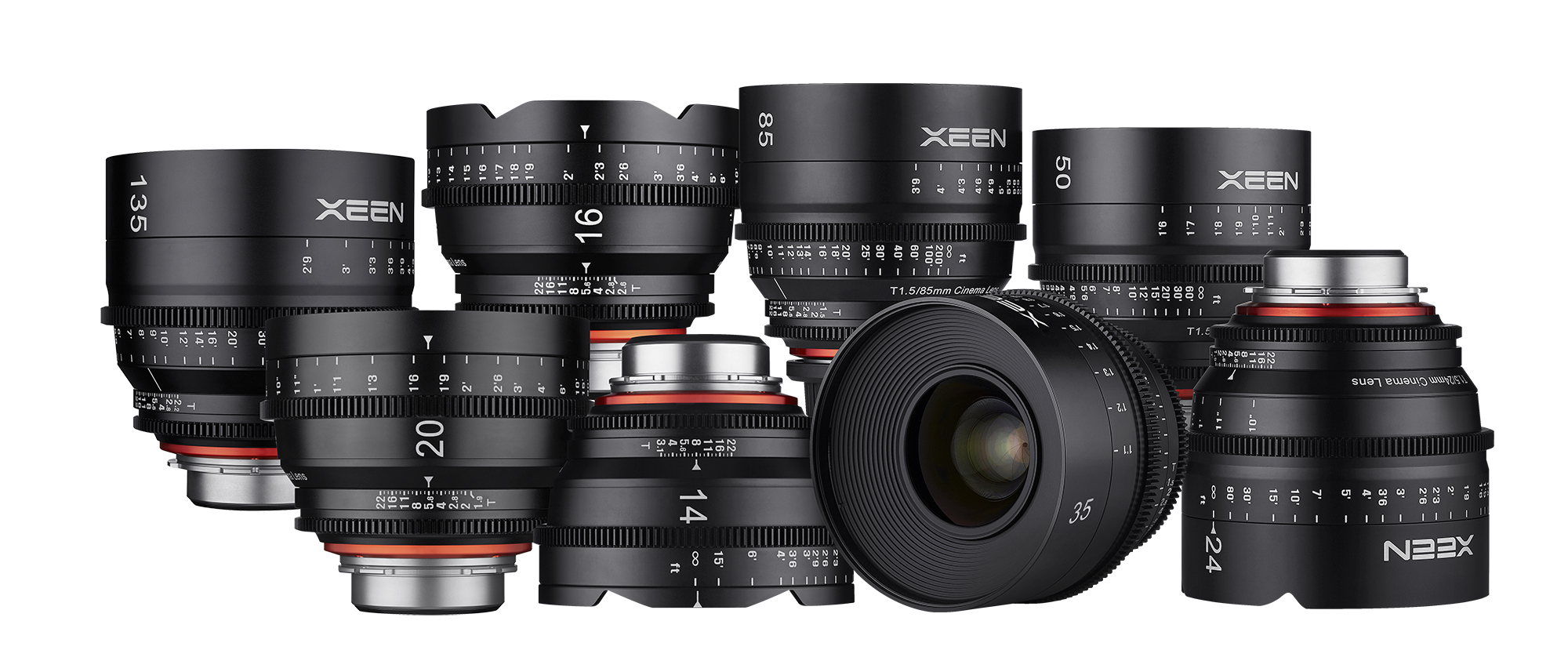 Professional Cine lens